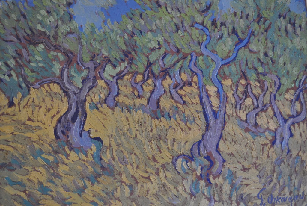 Olive trees